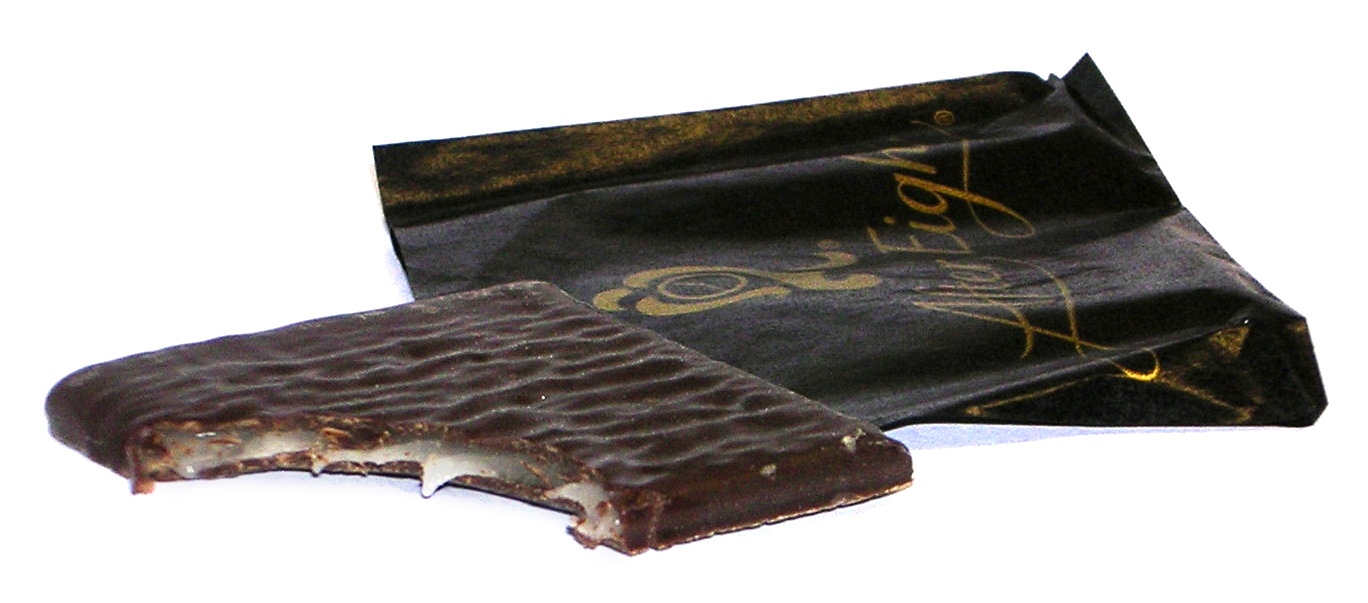 After Eight thin chocolate mint (i.e. the original variety)